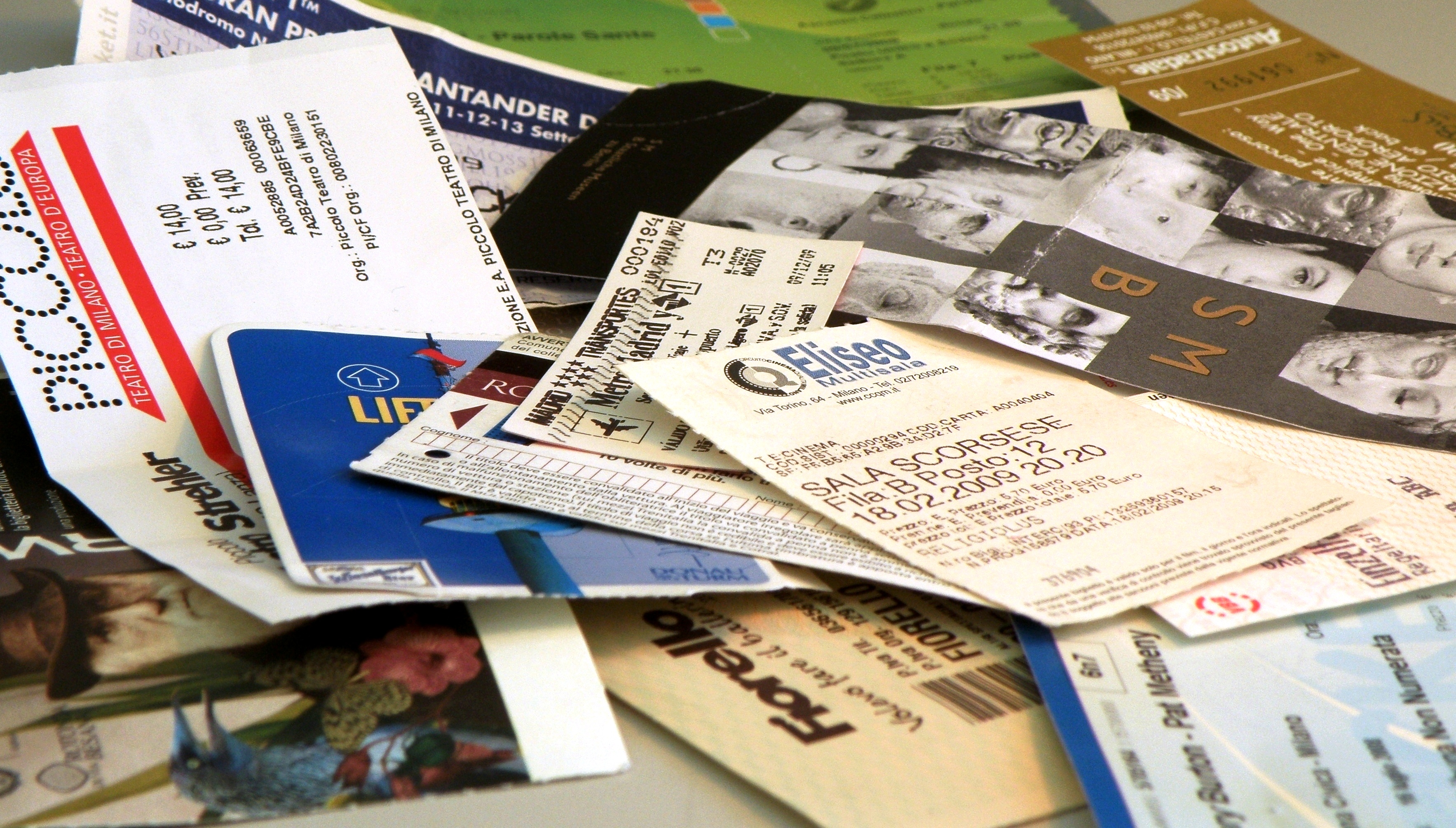 Some tickets.